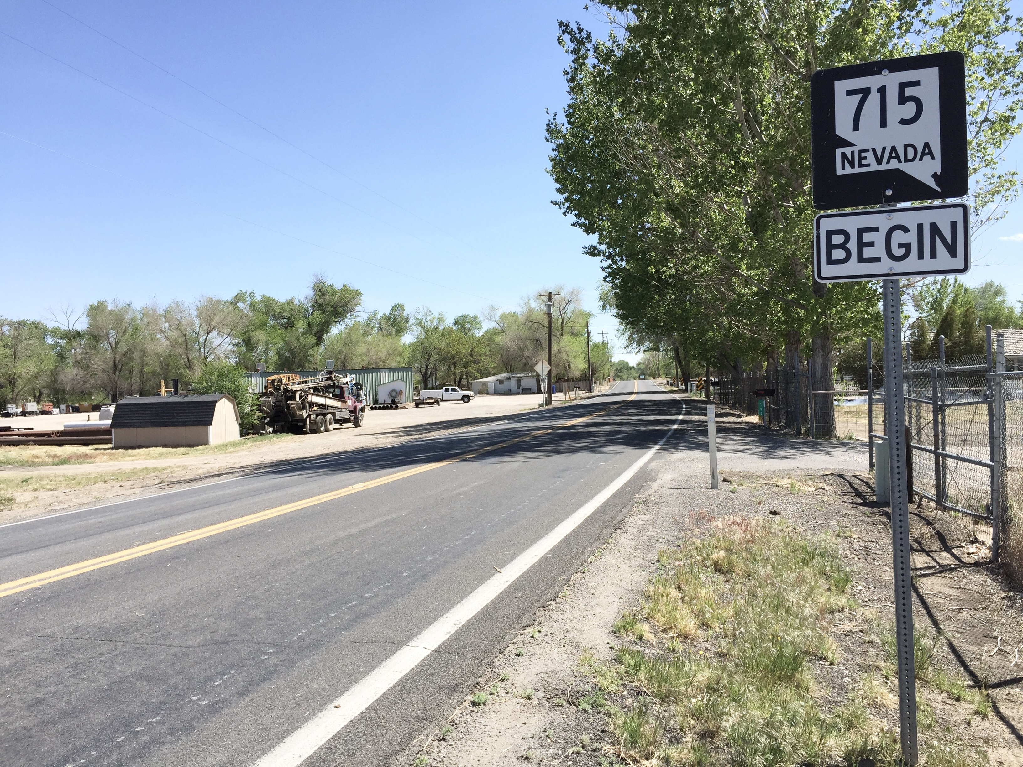 View south from the north end of Nevada State Route 715 (McLean Lane) in Churchill County, Nevada